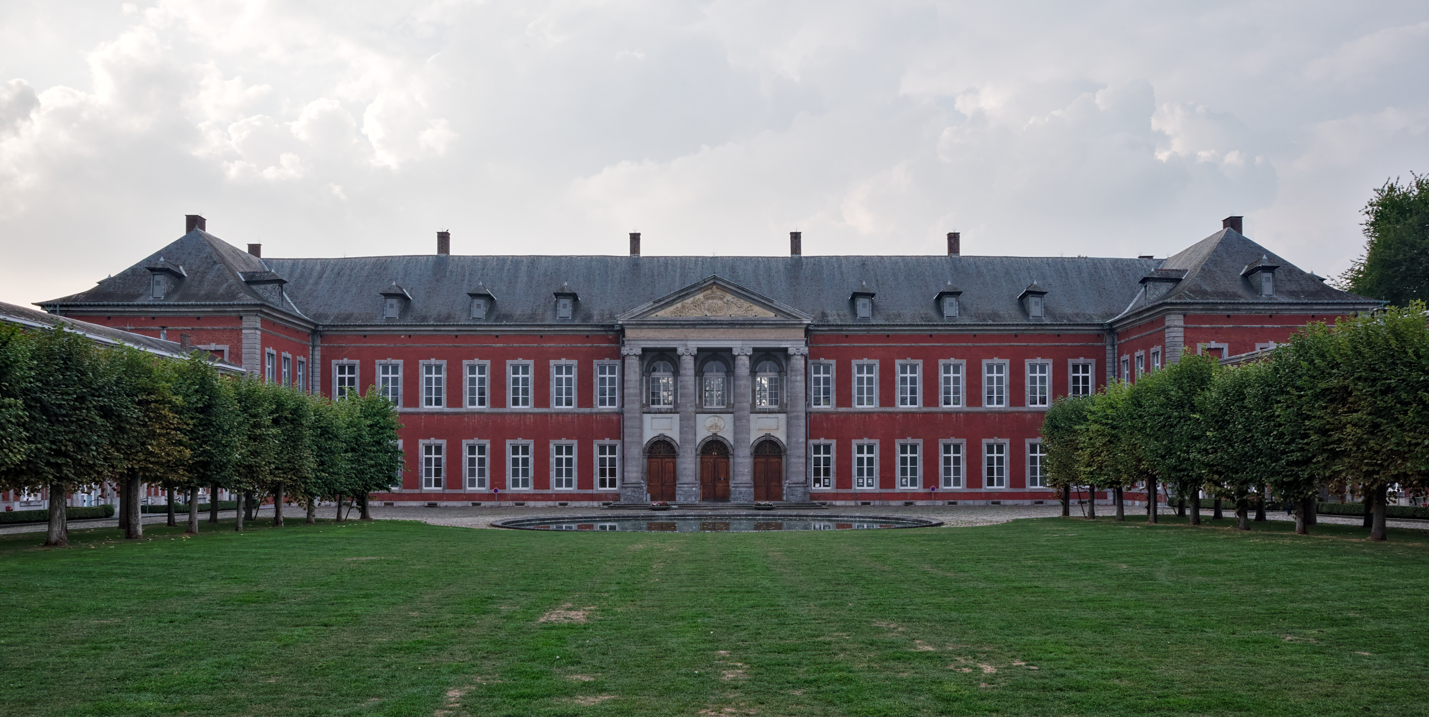 Gembloux Abbey, current home of Gembloux Agro-Bio Tech This photo of immovable heritage has been taken in the Walloon Region